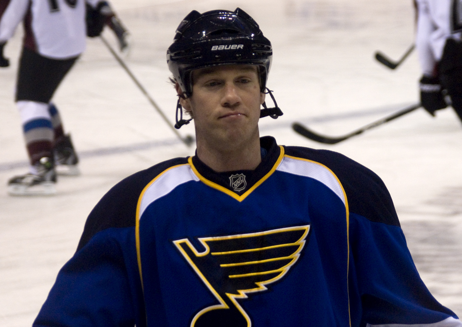 brad winchester St. Louis Blues vs. Colorado Avalanche - National Hockey League - 2010–11 NHL season. Erik Johnson and Jay McClement returned for the first time to face their former team. The Avs won. Photo taken by Sarah Connors on February 22, 2011. This photo also appears in Sarah Connors Flickr set "Blues vs. Avs, 2/22/11" (Set of 86).